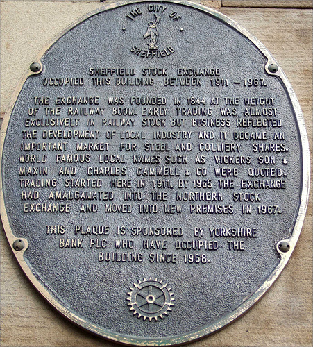 Sheffield stock exchange